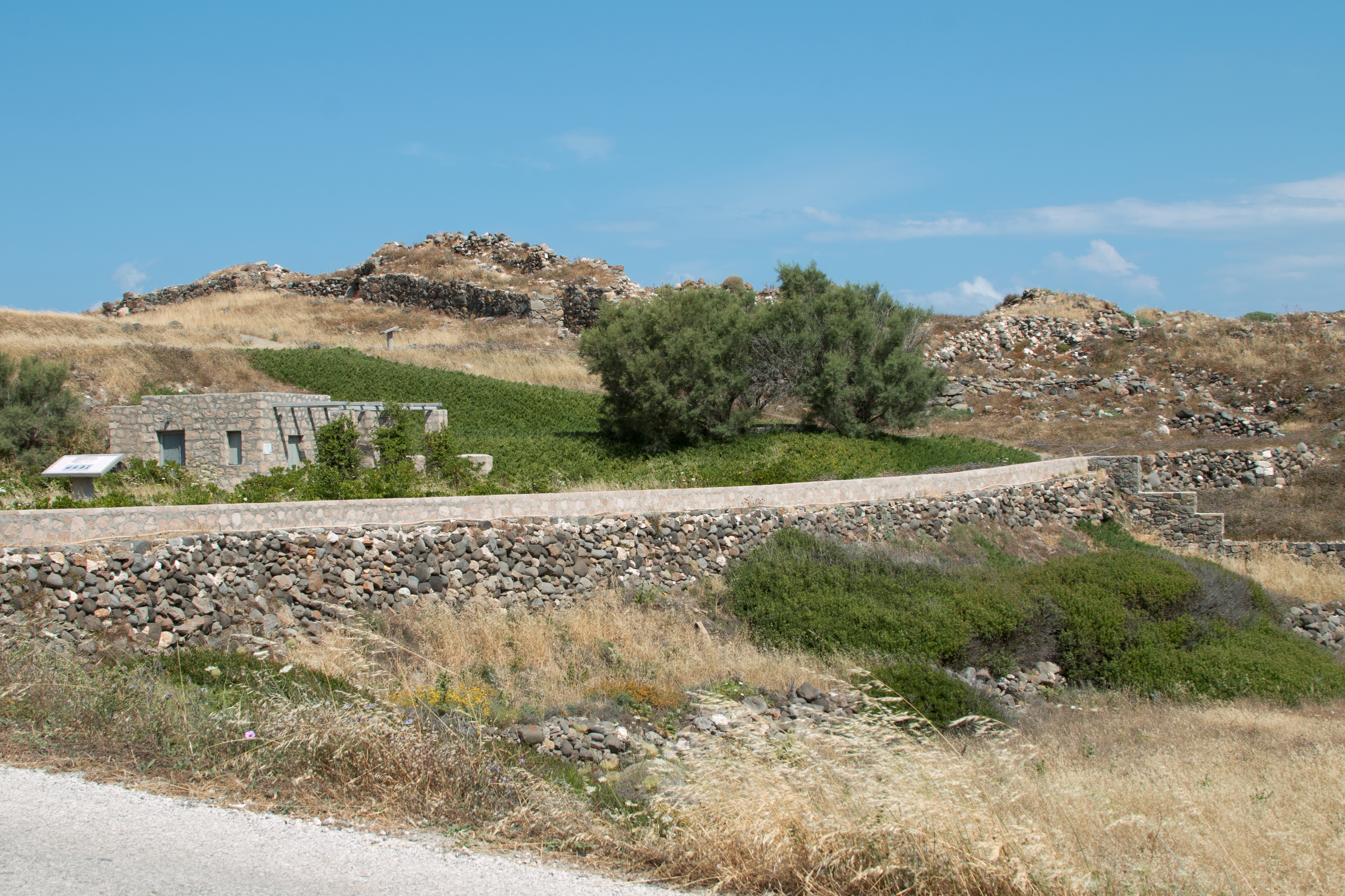 Phylakopi archaeological area, general view from the south, therefore from inland (4).